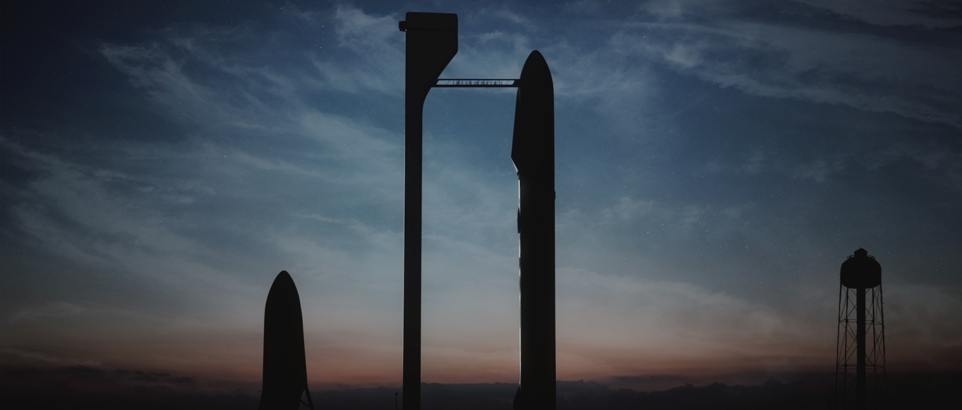 Artists rendering of passengers loading into the Interplanetary Spacecraft, which is also the upper stage of the Interplanetary Transport System launch vehicle (ITS launch vehicle), on launch pad 39A. ITS tanker (an alternate upper stage) is to left of launch tower.